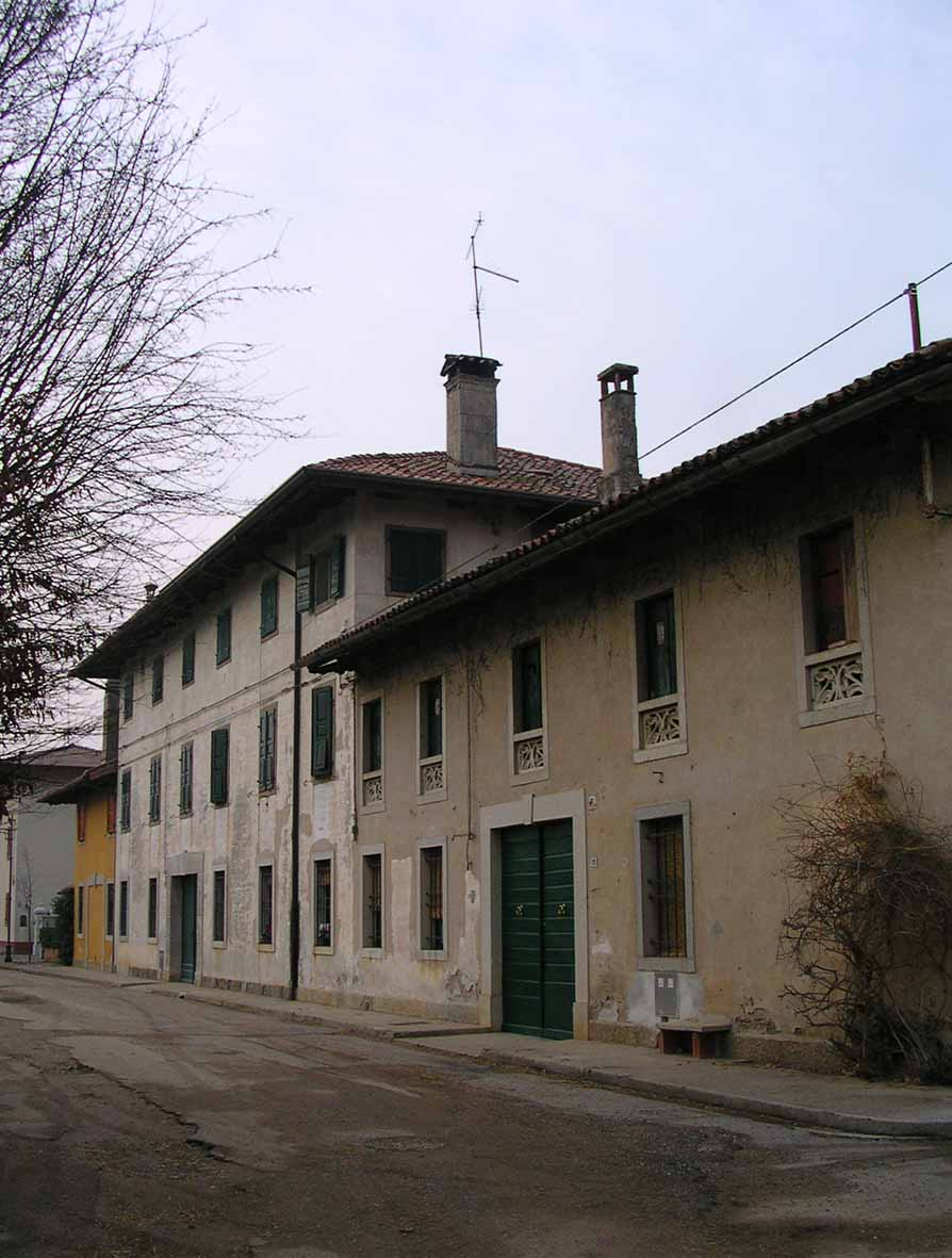 S.Stefano_Udinese,_villa_Cirio